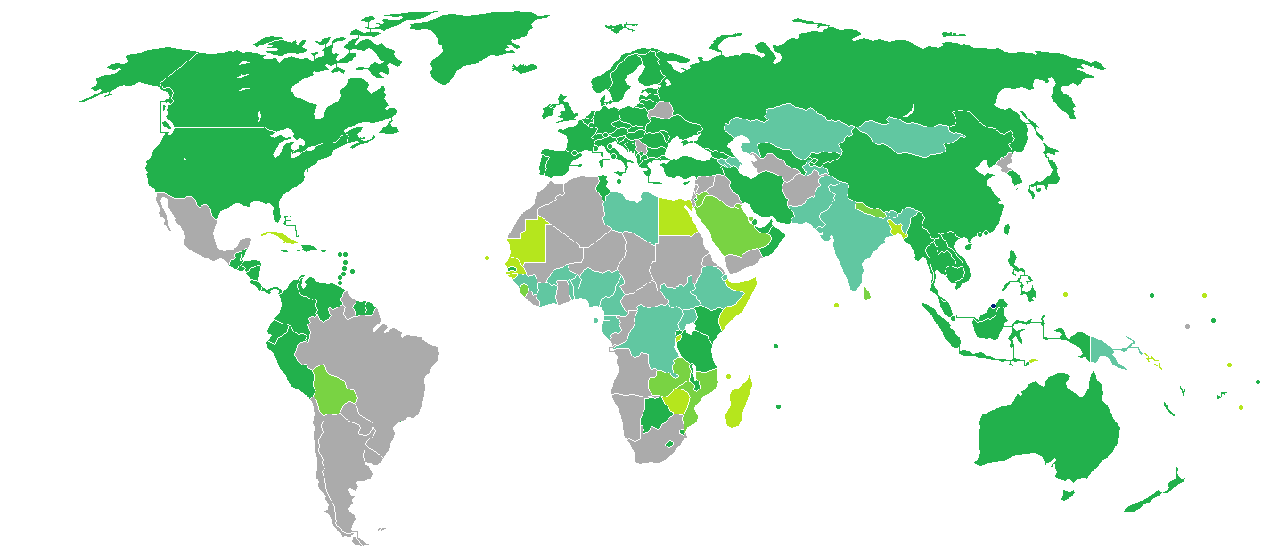 Visa requirements for Bruneian citizens. Brunei Visa free access Visa on arrival eVisa Visa available both on arrival or online Visa required